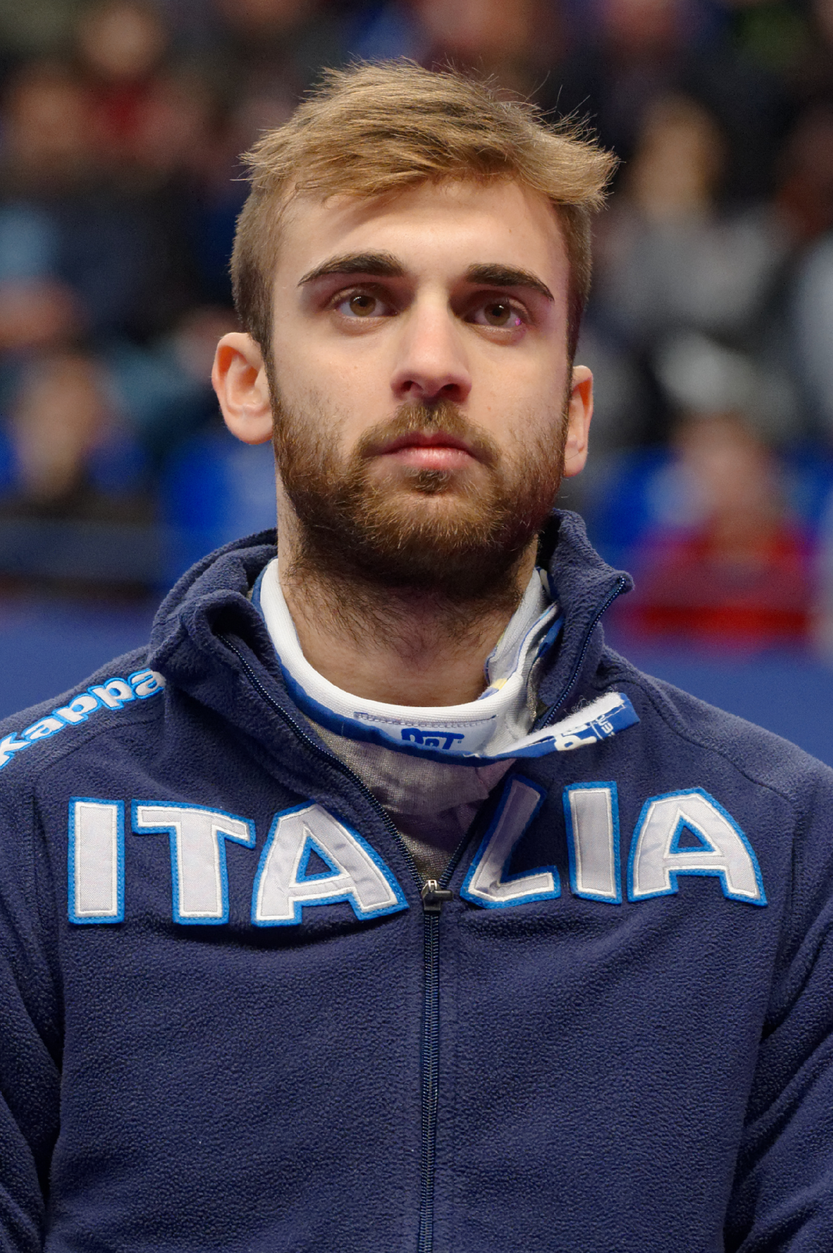 Italy's Daniele Garozzo at the individual event of the 2017 Challenge International de Paris, a men's foil World Cup competition.